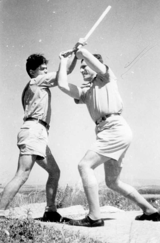 The Palmach, Israel Defense Forces